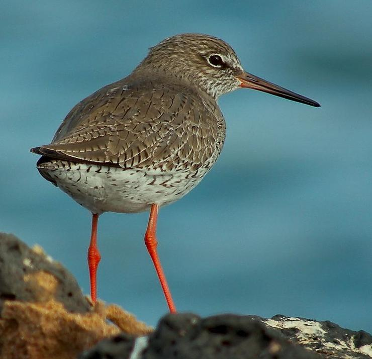 Common Redshank